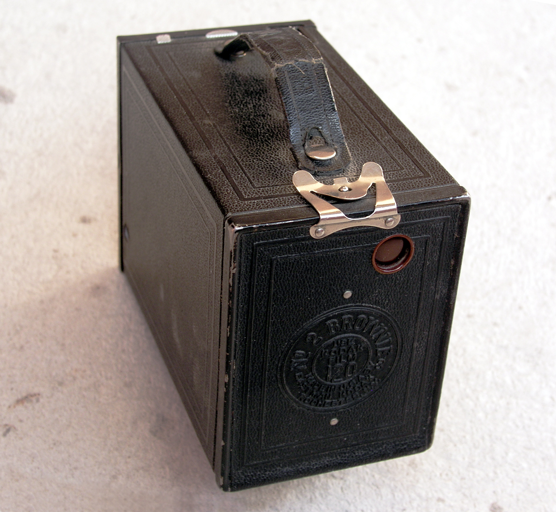 Kodak Brownie camera